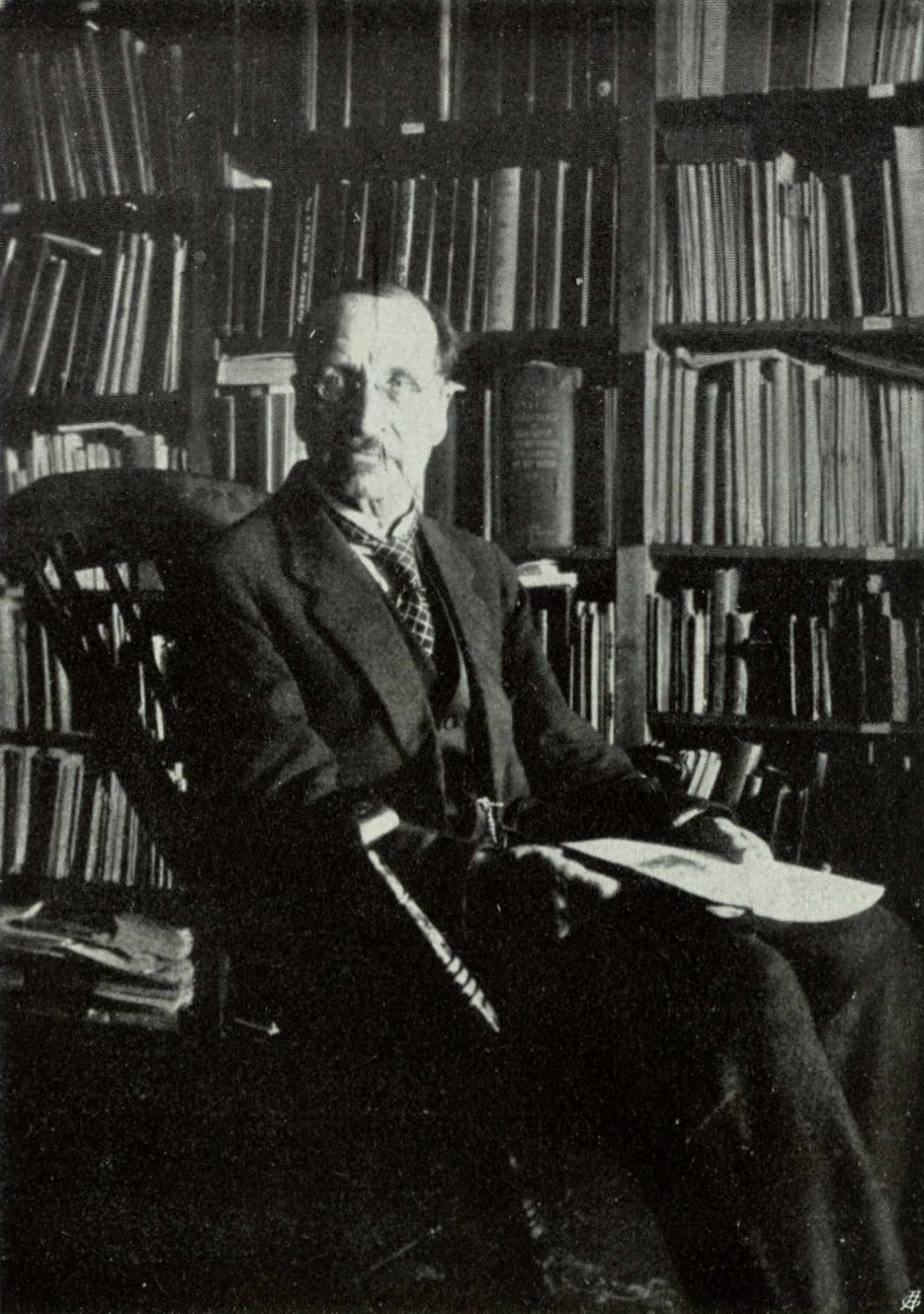 The Finnish lichenologist Evard August Vainio (also spelled Wainio)